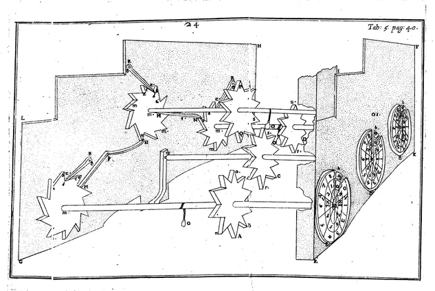 Pinwheel calculator schema published in 1709 by Giovanni Poleni (1683-1761)